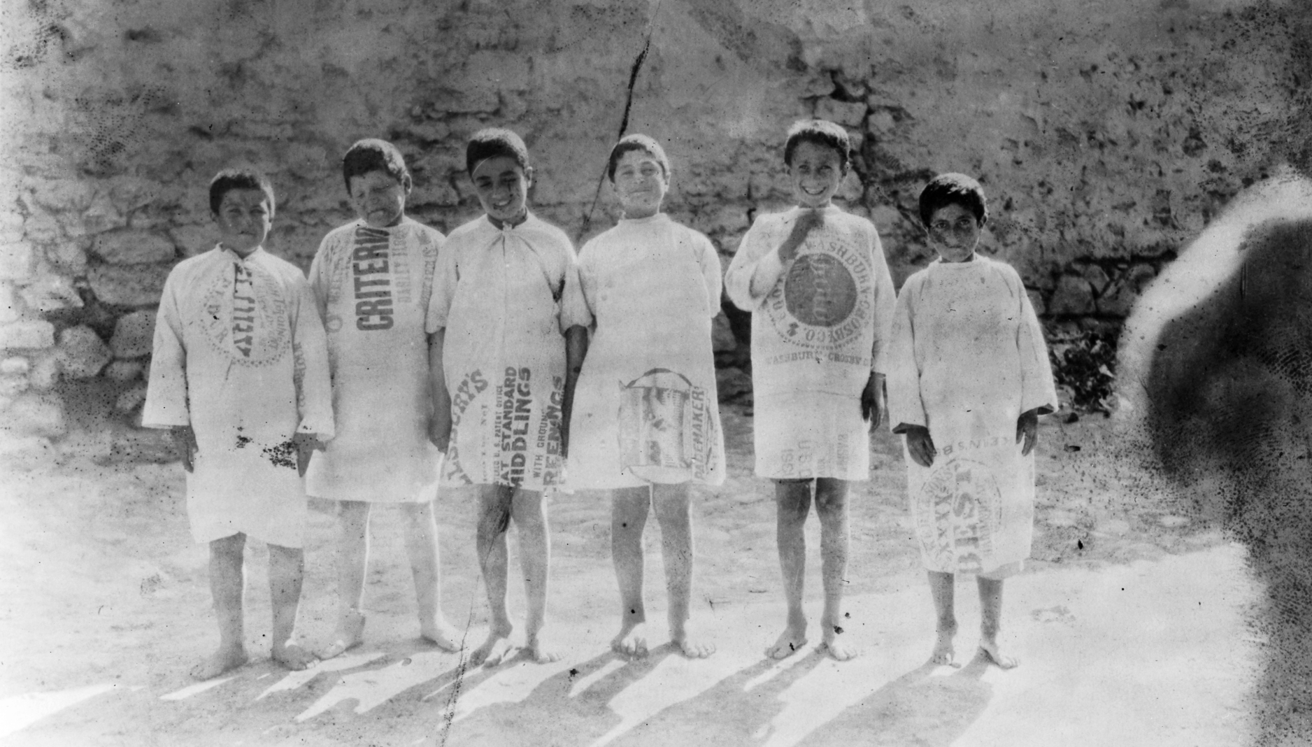 Near East Relief, a common sight among the Armenian refugees in Syria